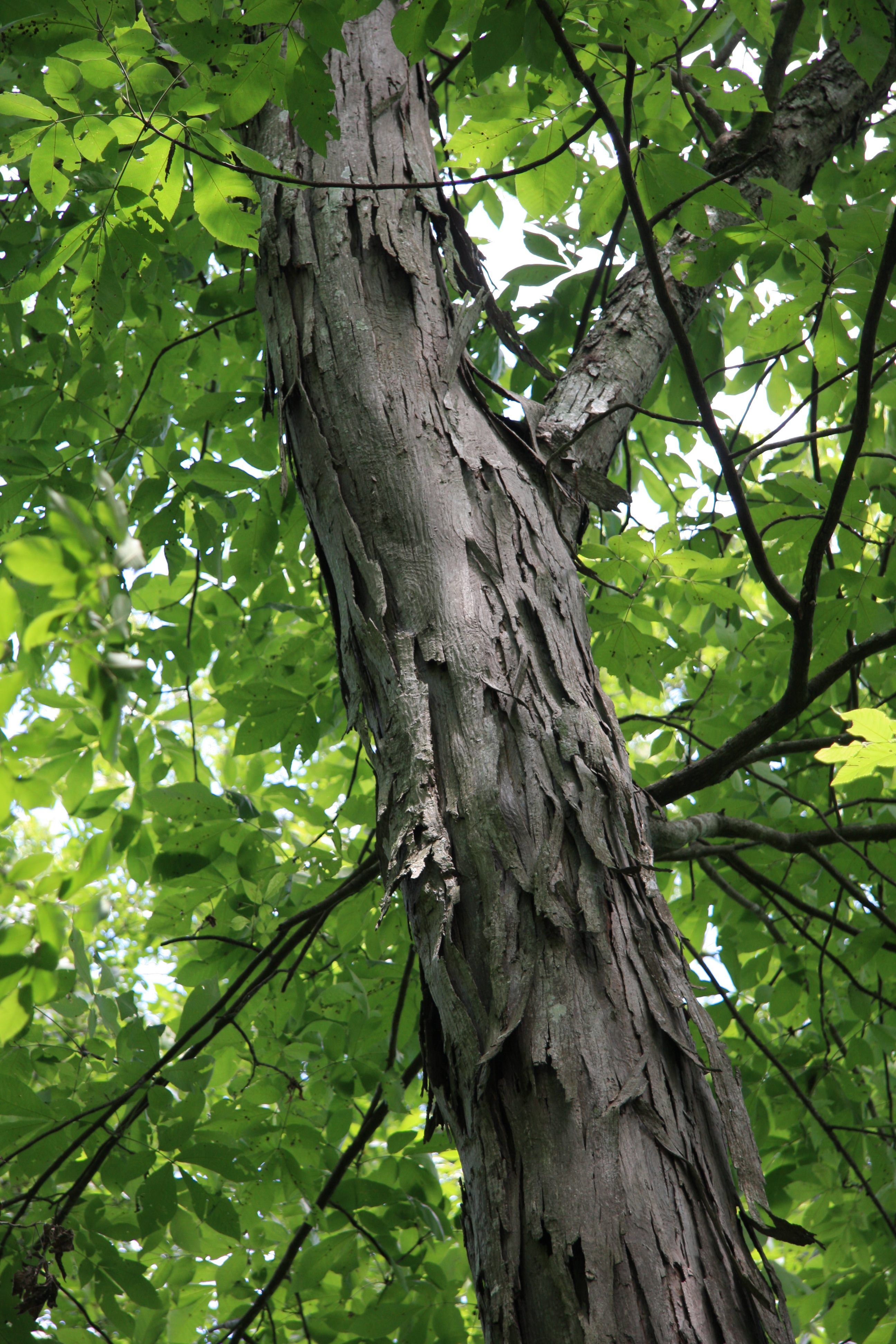 Shagbark hickory (Carya ovata), trunk with shaggy bark, in summer. On slope below and east of the end of Piney Mountain Road, Duke Forest Korstian Division, Durham NC.